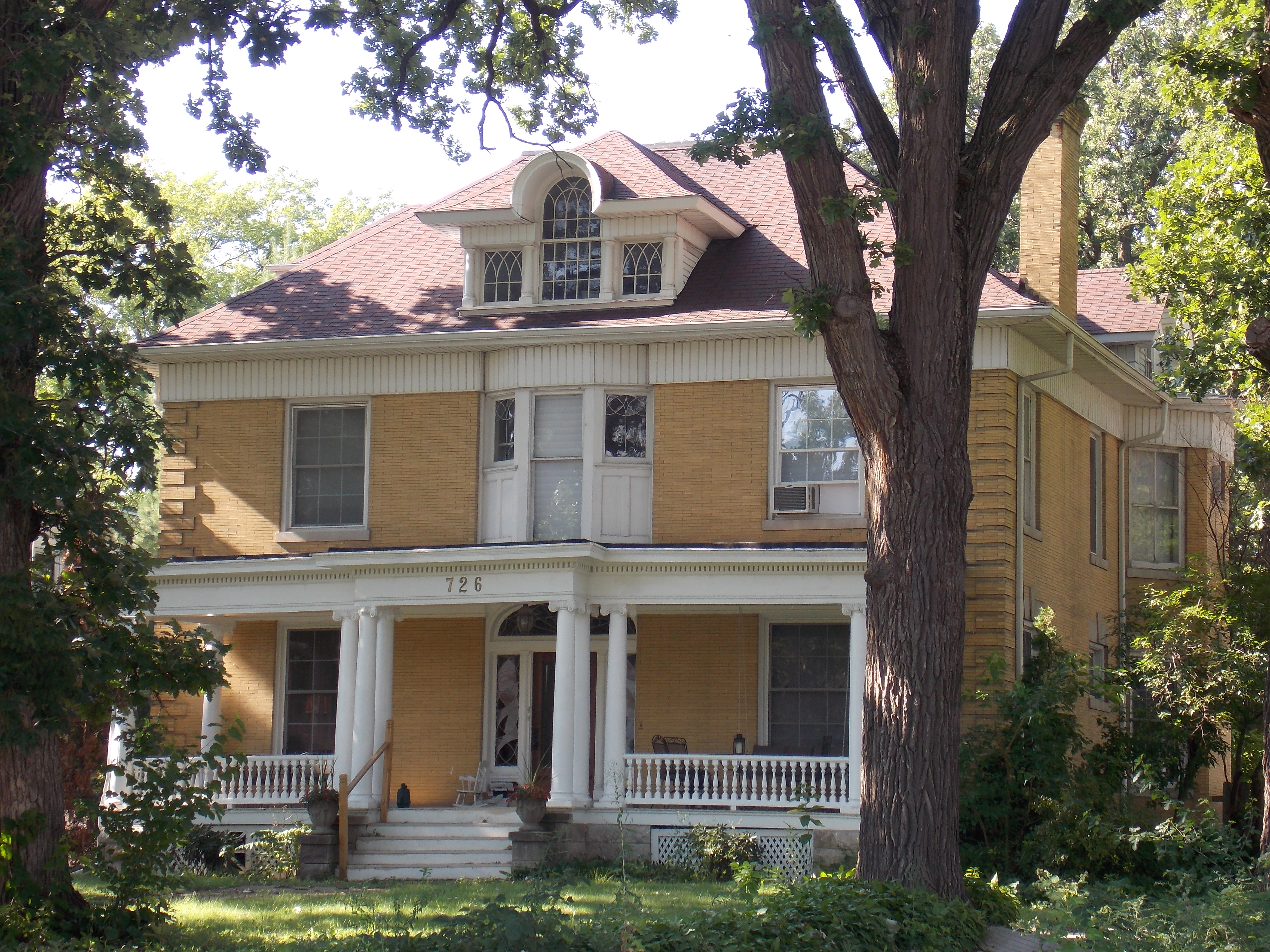 The Julia Roberts House in Davenport, Iowa is a contributing property in the Oak Lane Historic District.